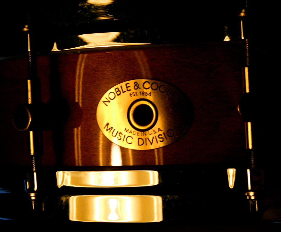 Snaredrum from the Noble & Cooley Company